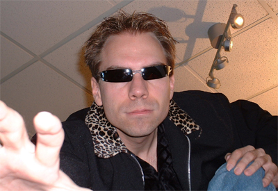 Frank Klepacki on an insert photo of his „Morphscape“ (2002) album